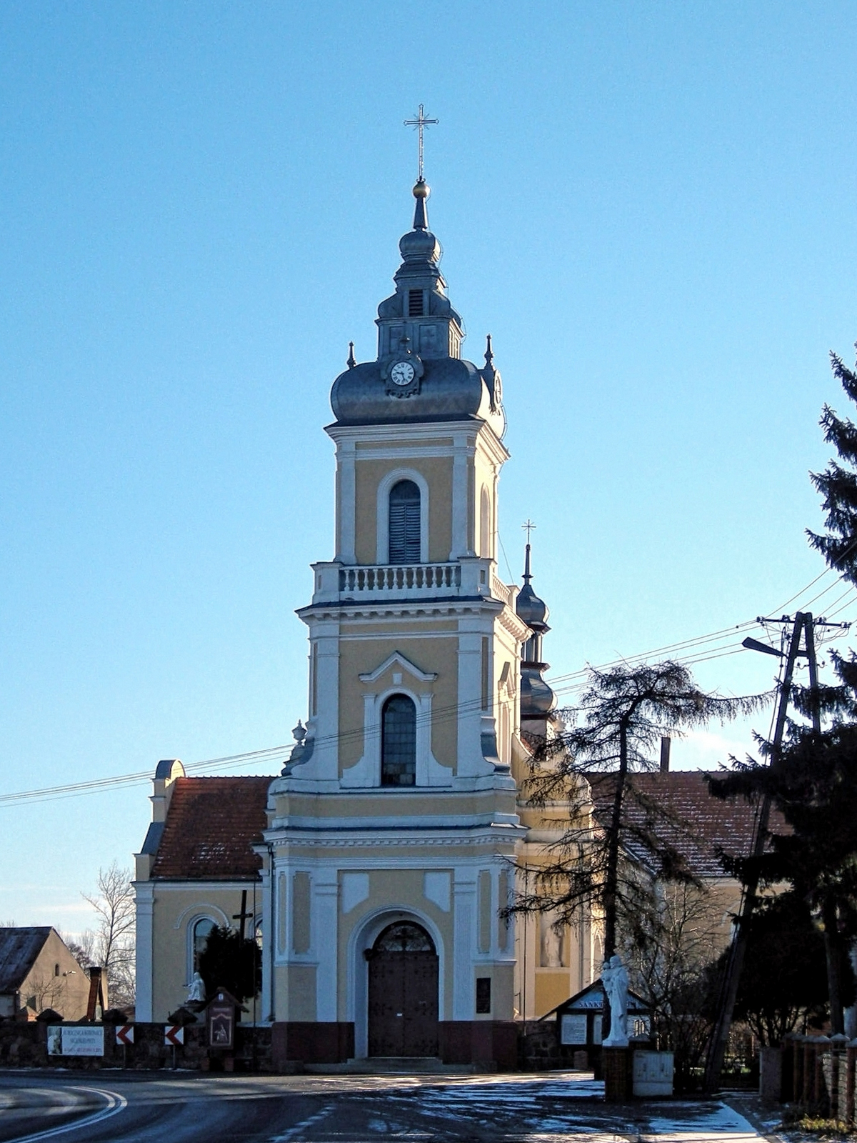 Church of the Nativity of the Virgin Mary in Skulsk, Poland.